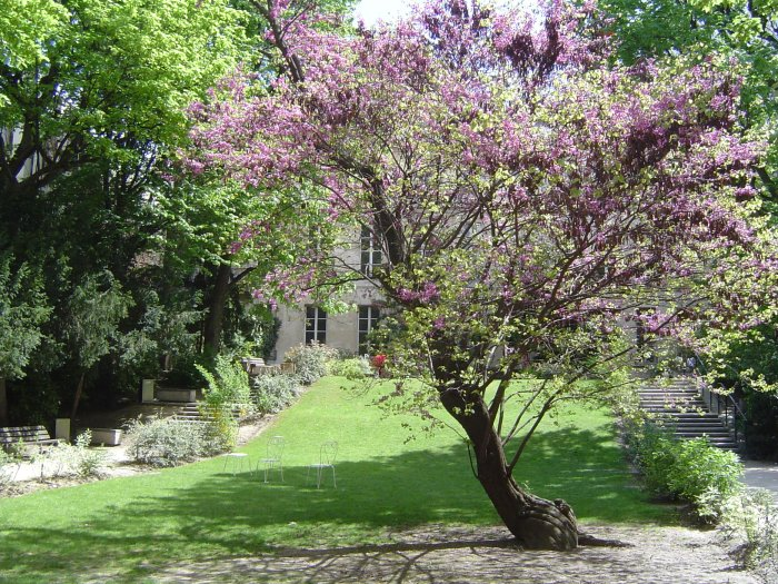 The Sciences Po Garden, 27 rue Saint Guillaume. At the background: the rue des Saints-Pères building.